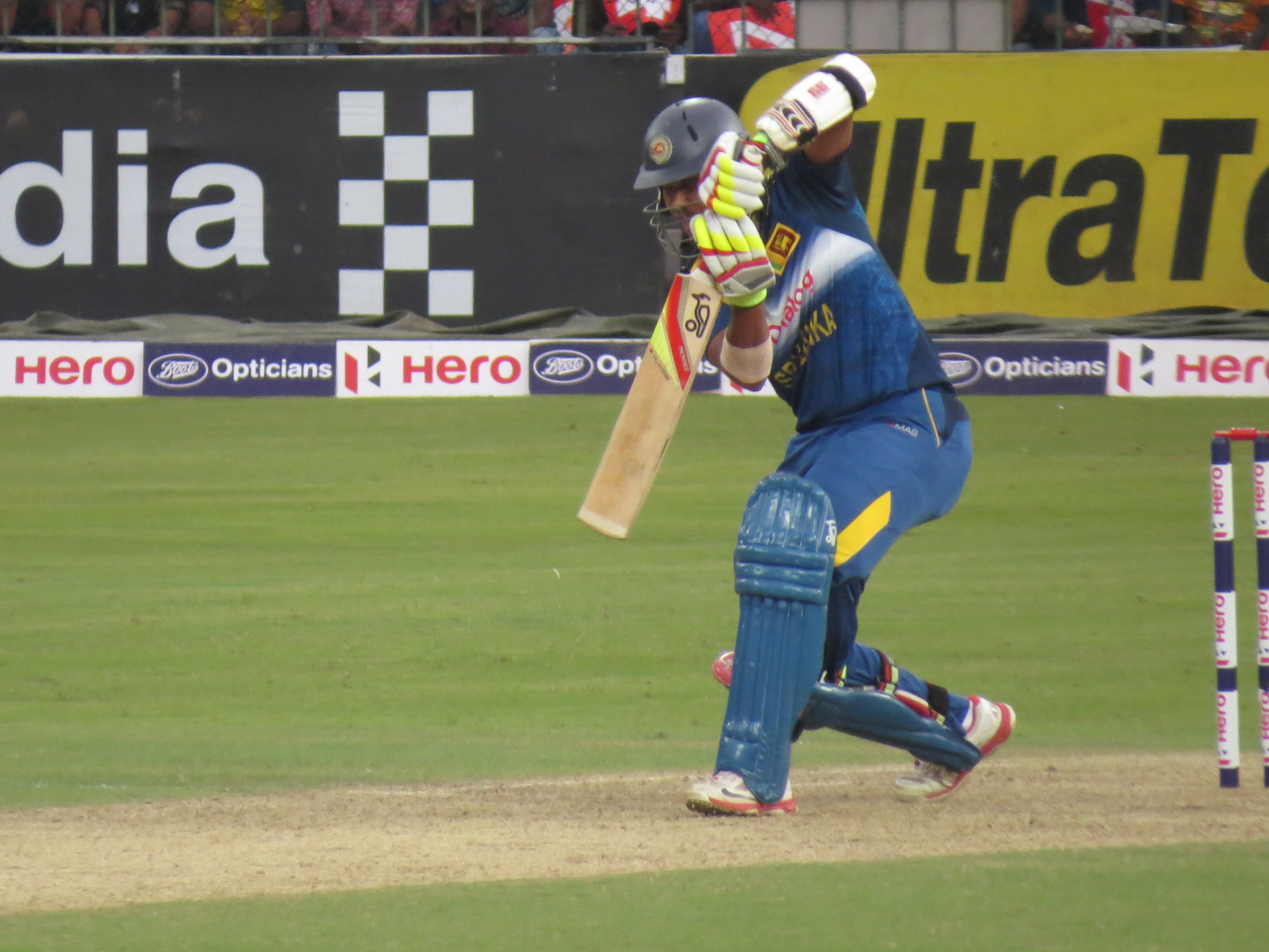 Dinesh Chandimal batting